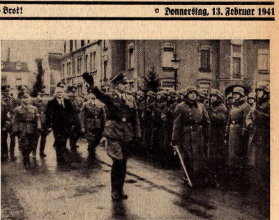 Gauleiter Simon und Bohle attend a parade in Gau Moselland and Luxemburg